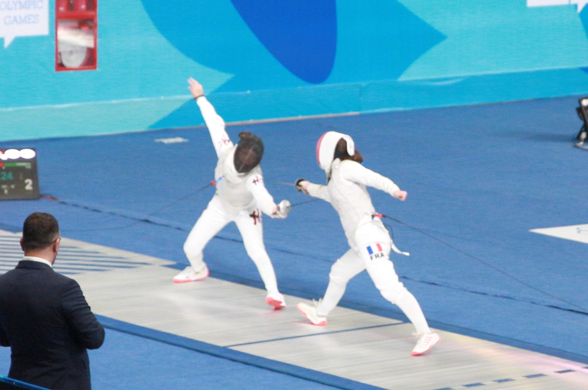 Fencing at the 2018 Summer Youth Olympics at 7 October 2018 – Girls' foil Round of 16 – Venissia Thépaut (FRA) Vs Christelle Joy Ko (HKG) 6:8